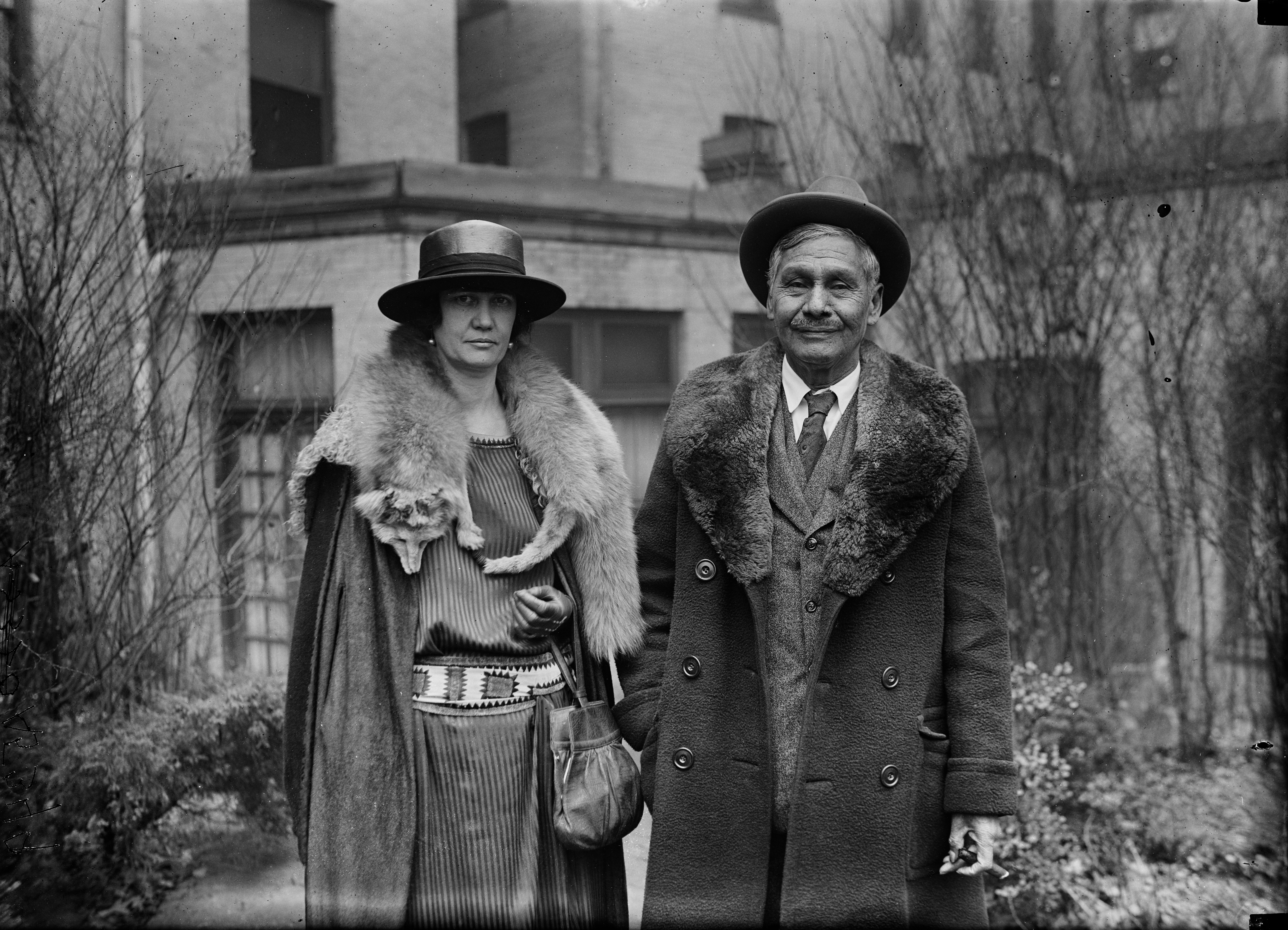 Jackson Barnett, the world's richest Indian, with wife at White House.